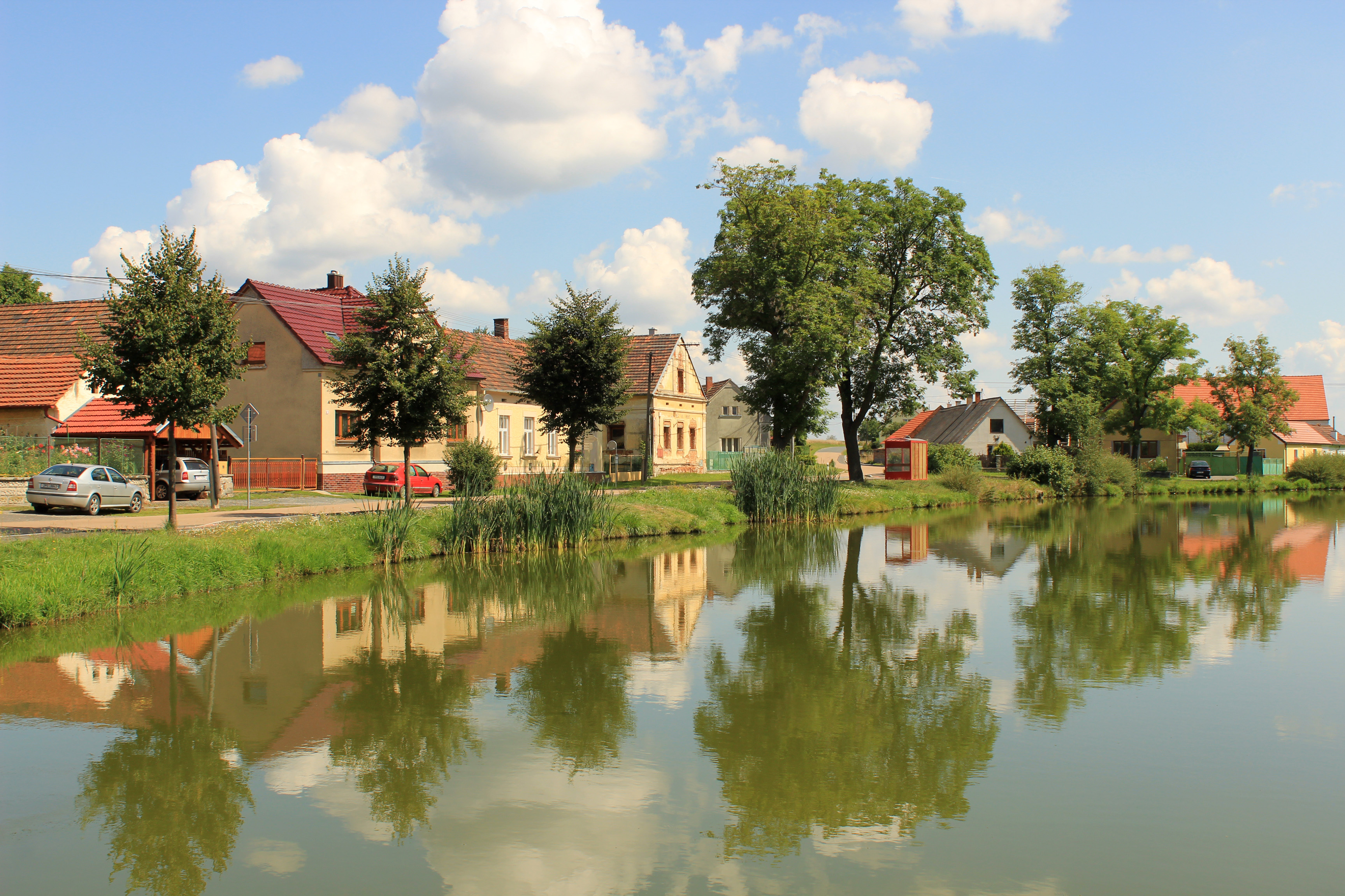 Great pond in Močerady village, Czech Republic.